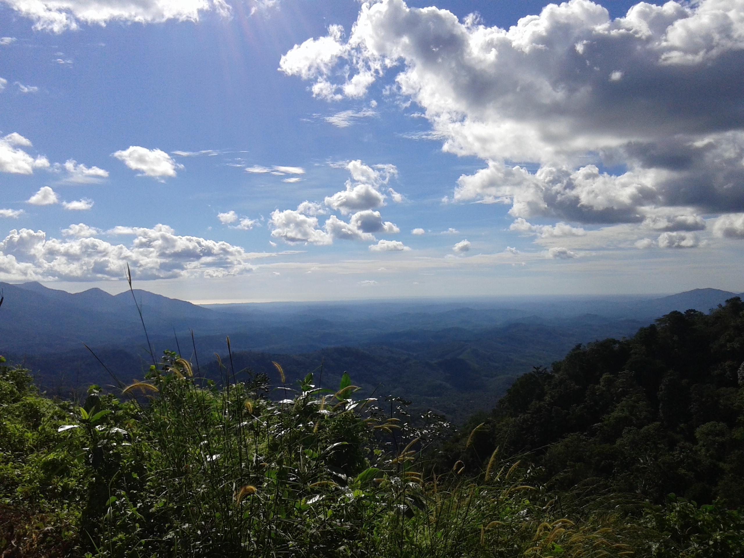 Elapeedika